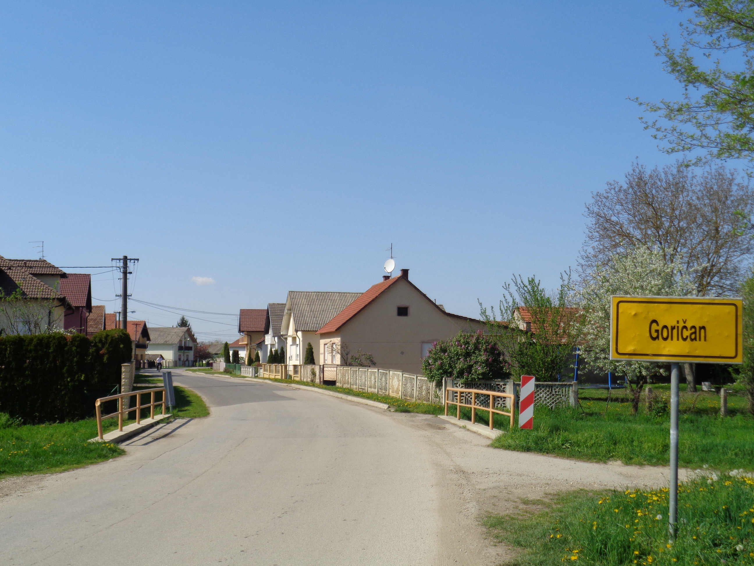 Goričan village, Medjimurje County, Croatia - entrance from the south